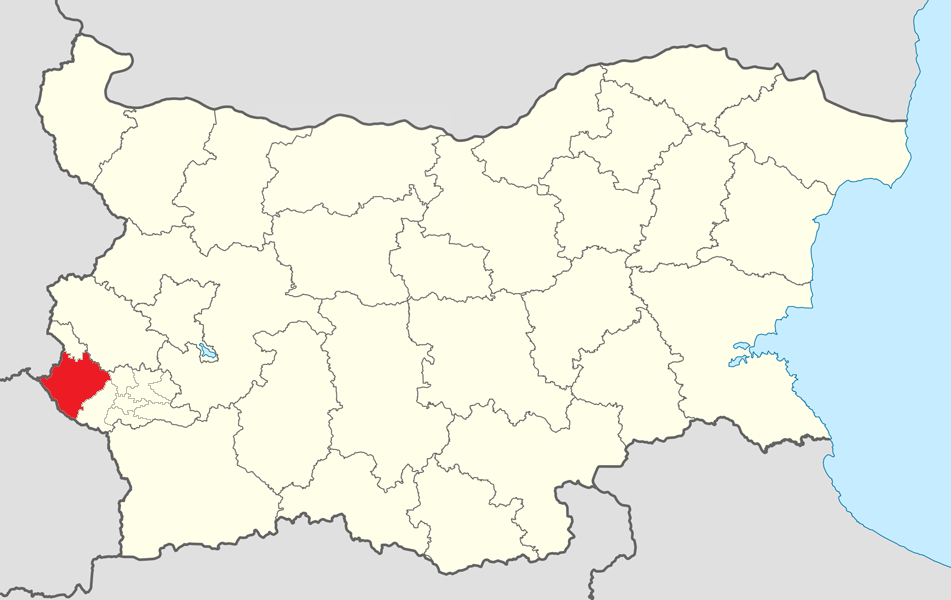 Location map of Kyustendil Municipality within Bulgaria and Kyustendil province